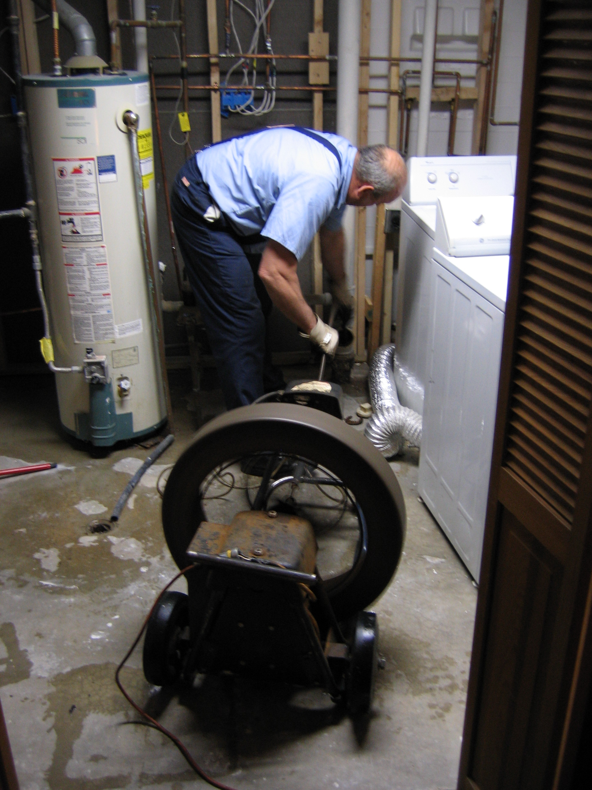 Modern Roto-Rooter use. more info